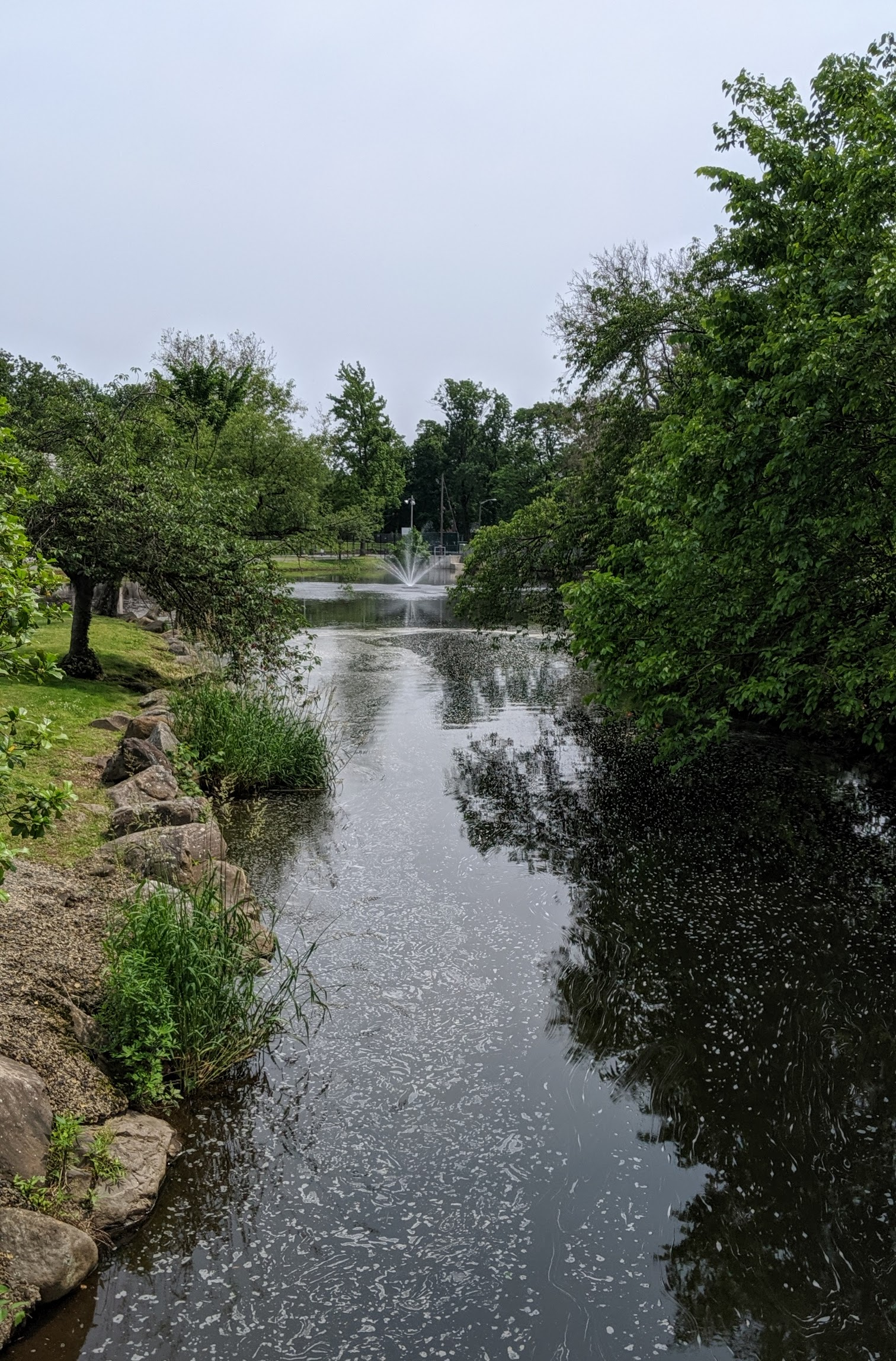 View of the Rahway River, looking south from the footbridge in Taylor Park, Millburn, NJ